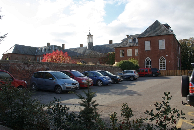 Hartlebury Castle The Worcestershire County Museum occupies the north wing (buildings on the right). The south wing used to be the Bishop's Palace until 2007.